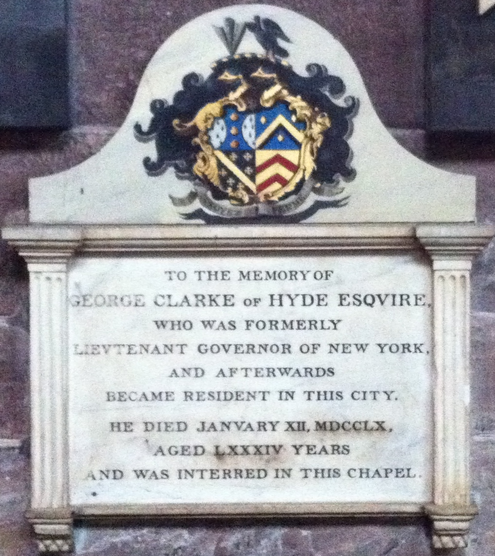 George Clarke of Hyde Esq, who was formerly Lieutenant Governor of New York, and afterwards resident in this city. He died 12 January 1760, aged 85 years.